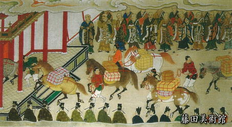 Illustrated handscroll of the Monk Zuanzang (Genjō Sanzō) (紙本著色玄奘三蔵絵, shihon chakushoku Genjō Sanzōe). Part of twelve handscrolls (Emakimono), 40.3 cm x (1200–1920)cm. Color on paper. Located at Fujita Art Museum, Osaka. The scroll has been designated as National Treasure of Japan in the category paintings.